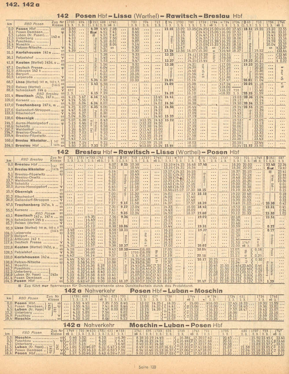 Timetable 1941/1942 Poznan Glowny - Leszno - Rawicz - Wroslaw Glowny